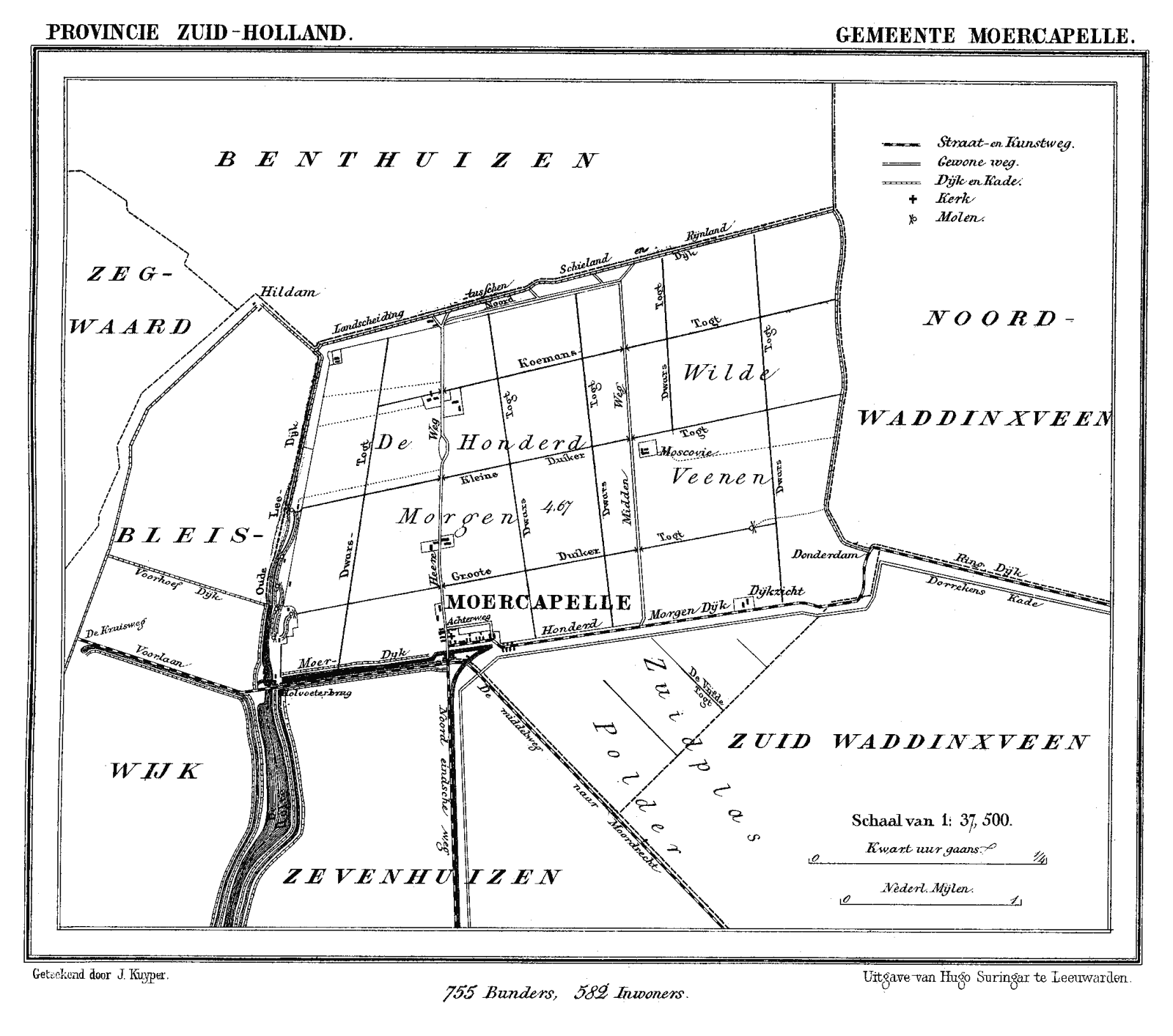 Historic map of Moerkapelle (now part of municipality Zevenhuizen-Moerkapelle), South Holland, the Netherlands